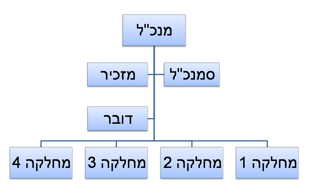 an example of a simple organizational structure